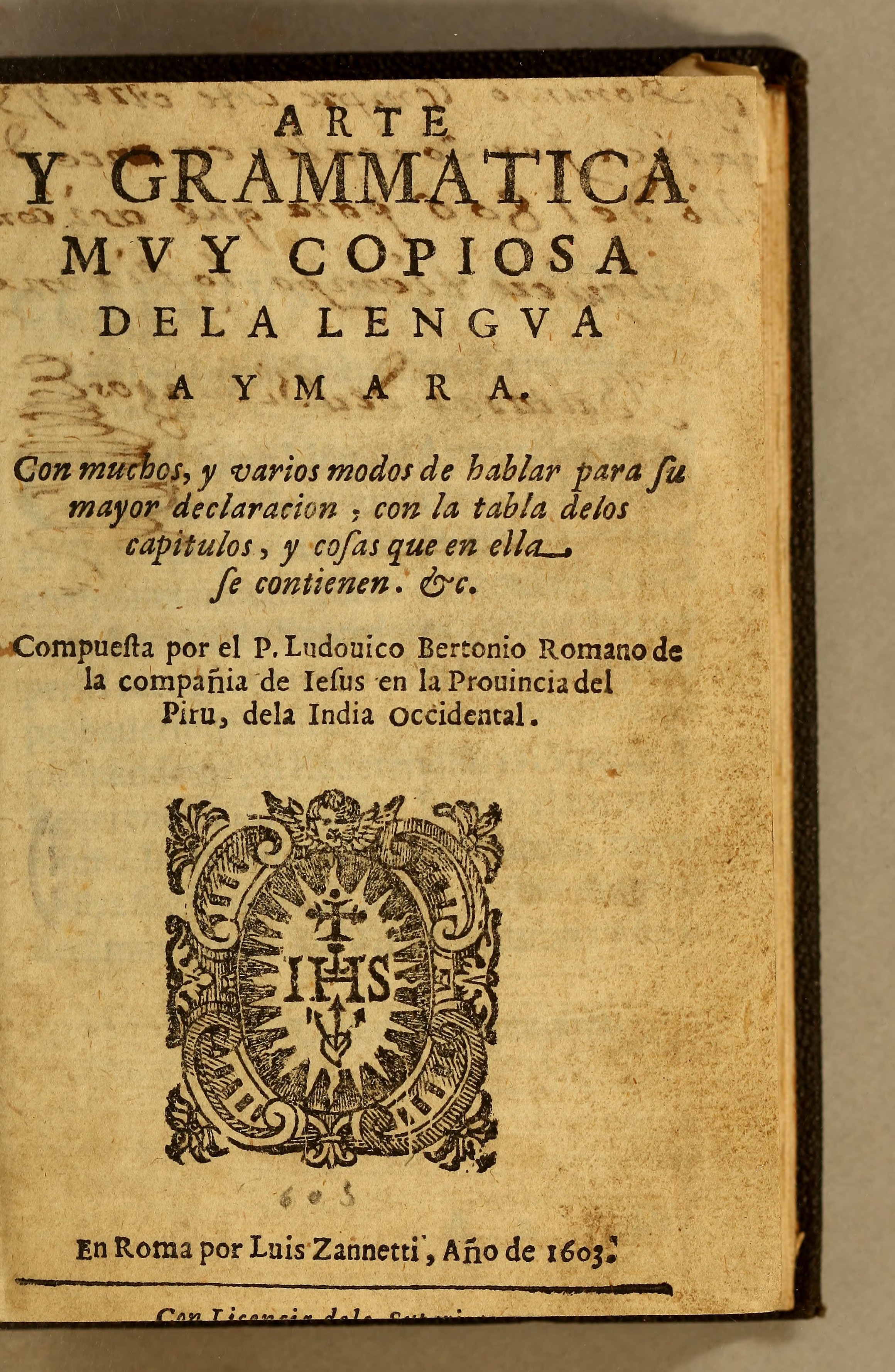 Title page of Ludovico Bertonio's Arte y grammatica muy copiosa dela lengua aymara. : Con muchos, y varios modos de hablar para su mayor declaracion con la tabla delos capitulos, y cosas que en ella se contienen. &c. (Rome, 1603)